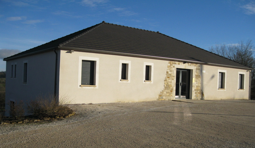 Physical therapy house in the village Alvignac (Lot, France